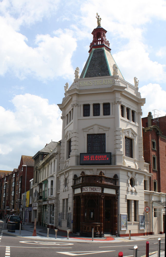 Kings Theatre Portsmouth 2010